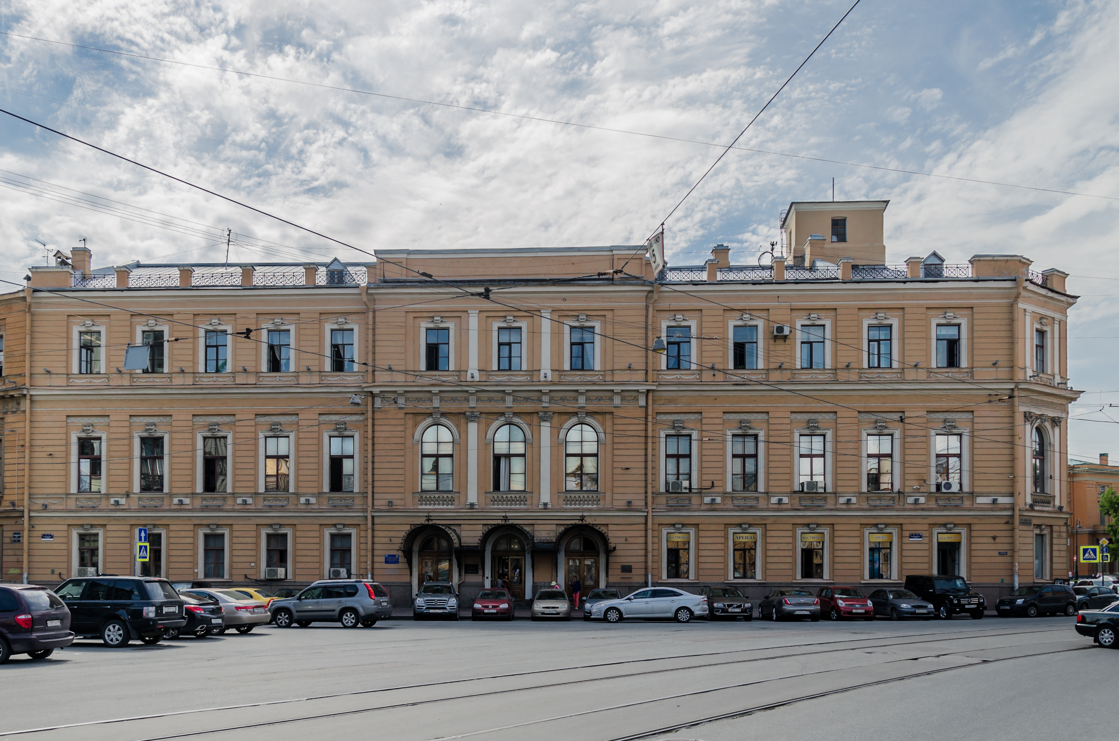 Engineering Department building.1, Karavannaya street, Saint Peterburg